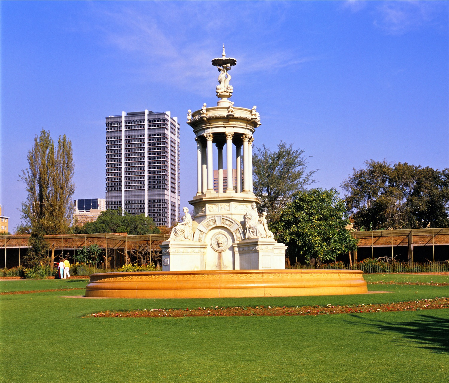 This media shows a South African Protected Site with SAHRA file reference 0000000000.